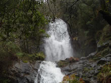 Pedra da Ferida